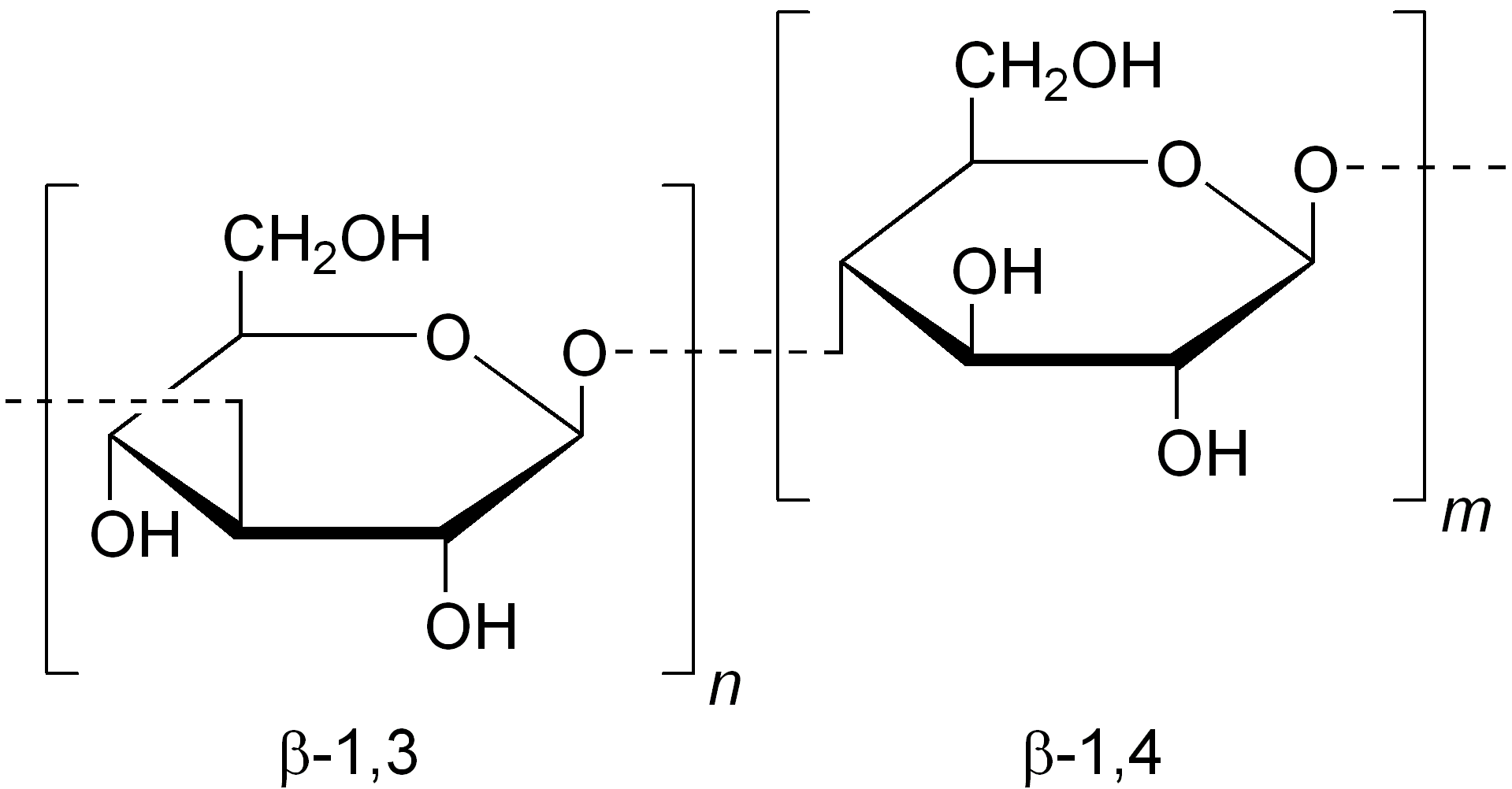 chemical structure of Beta-1,3-1,4-glucan (lichenin, lichenan, moss starch)